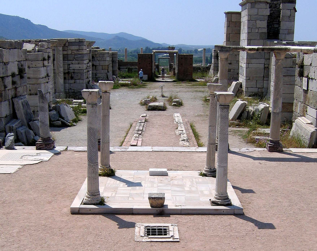 The traditional site of the tomb of John_the_Apostle -- one of Jesus' twelve apostles in the ancient city of Ephesus, an important religious centre of early Christianity. Ephesus is today located in Turkey.